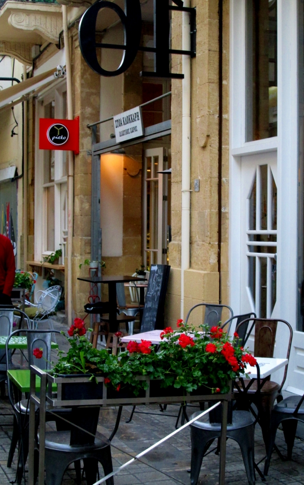 Flowers by Municipality in Ledra and Onasagorou Street Nicosia Republic of Cyprus